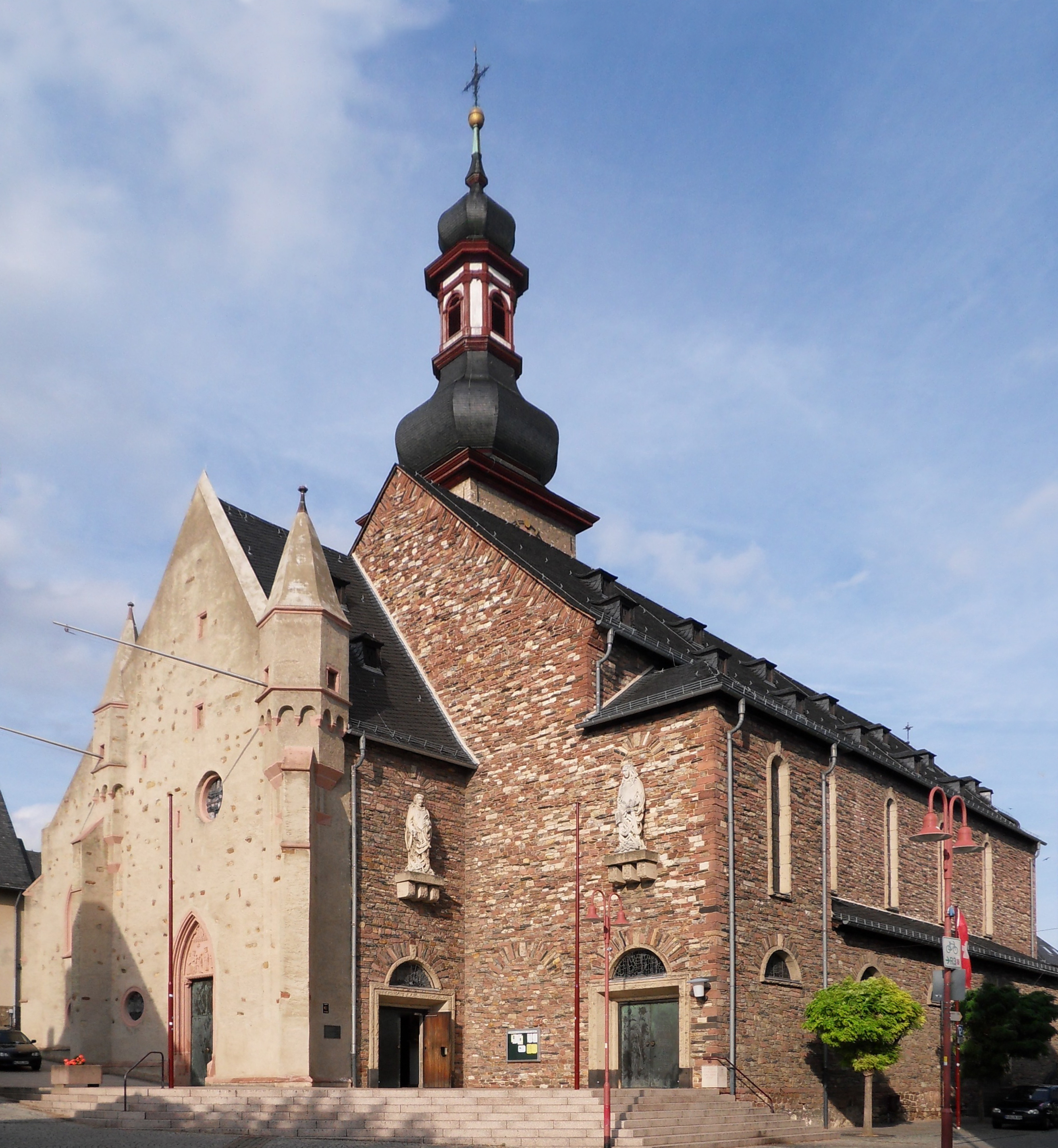 After devastation of World War II, rebuilt catholic parish church of St. Jakobus at marketplace in Rüdesheim am Rhein, Germany, view from southwest